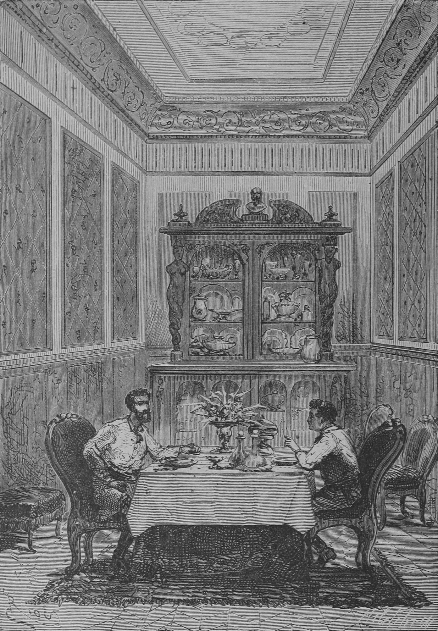 Image from page 82 of scan vingtmillelieue00vern_orig_0082.jp2